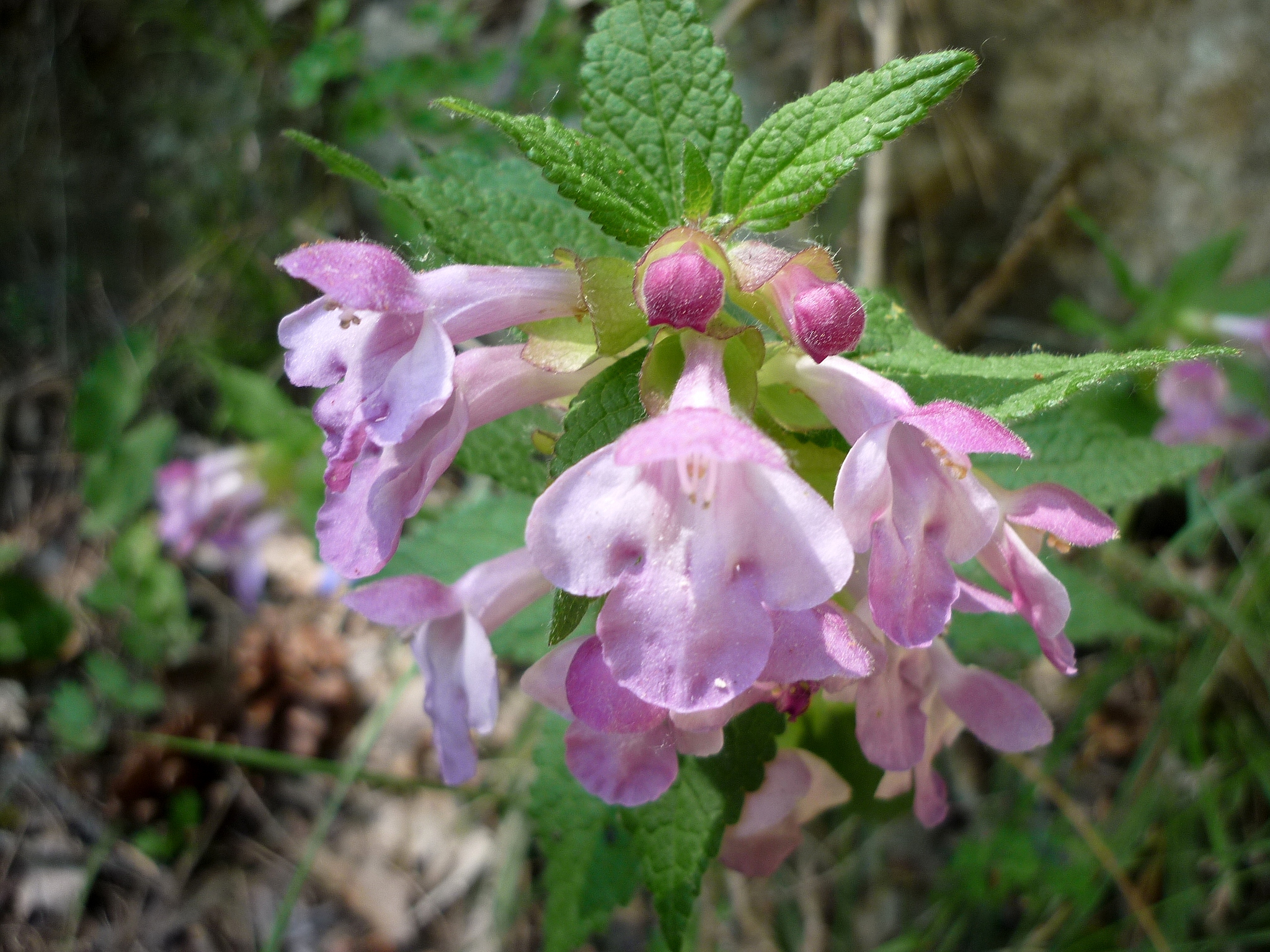 Melittis melissophyllum. In Torà (Segarra - Catalunya). To 590 m. altitude